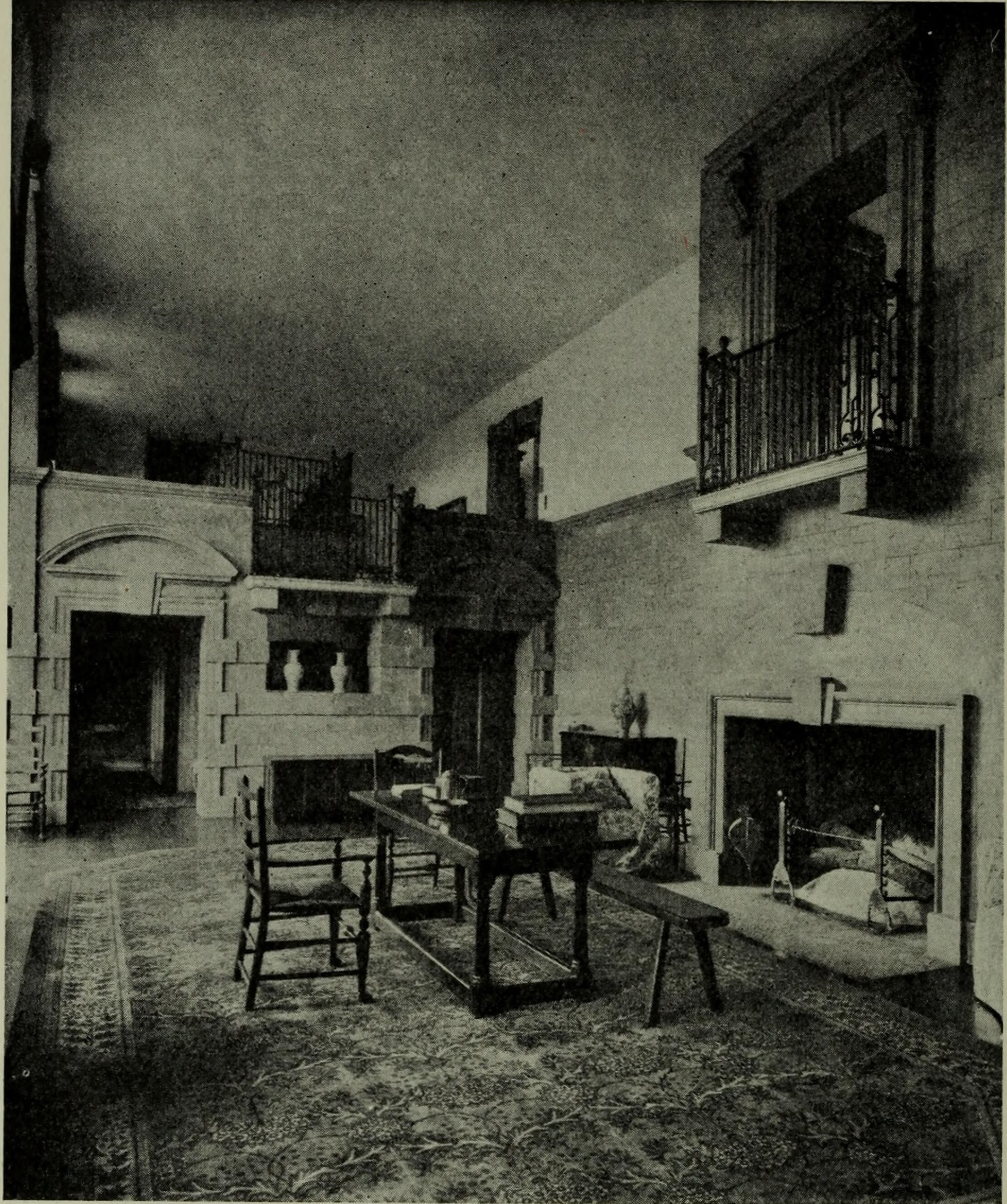 Illustration from the book Lutyens houses and gardens (1921) featuring Little Thakeham, Thakeham, Sussex.